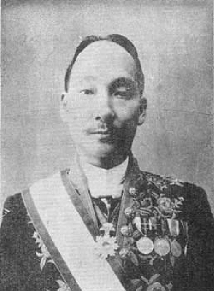 Yun Deok-yeong Portrait